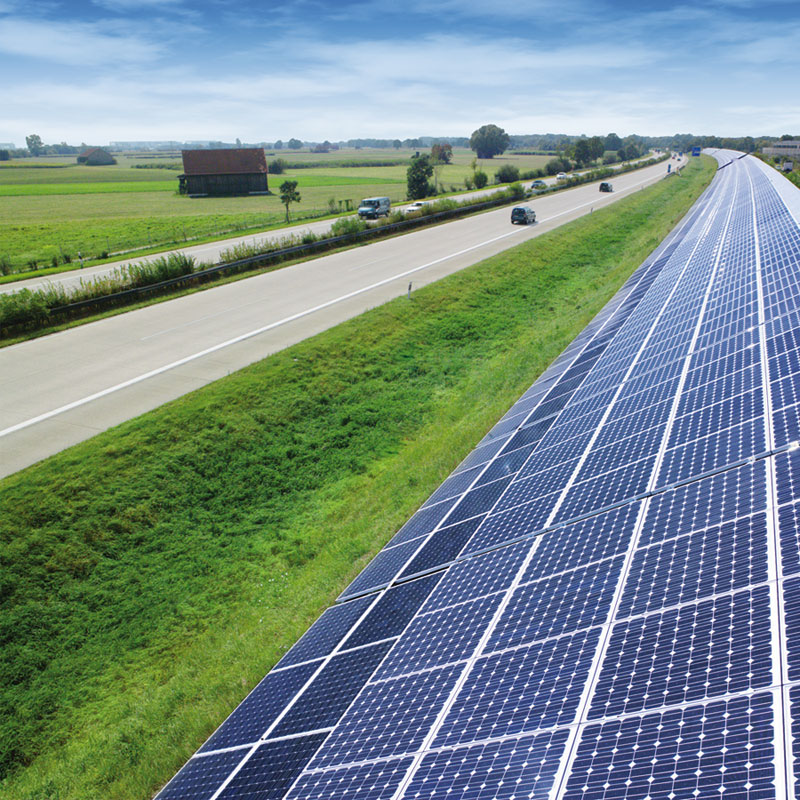 The worlds largest PV sound barrier with a capacity of 500 kWp was installed at Freising in Germany, next to the Munich airport and is operational since September 2003. 338 kWp of the installed PV capacity was realized with ceramic based PV modules manufactured by ISOFOTON in a pilot production. The project was co-funded by the EC DG-TREN in the framework of the “PV Soundless” project.